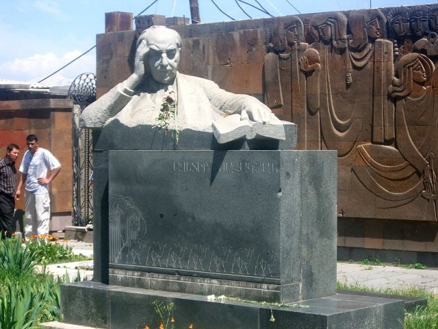 Isahakyan grave Komitas Pantheon